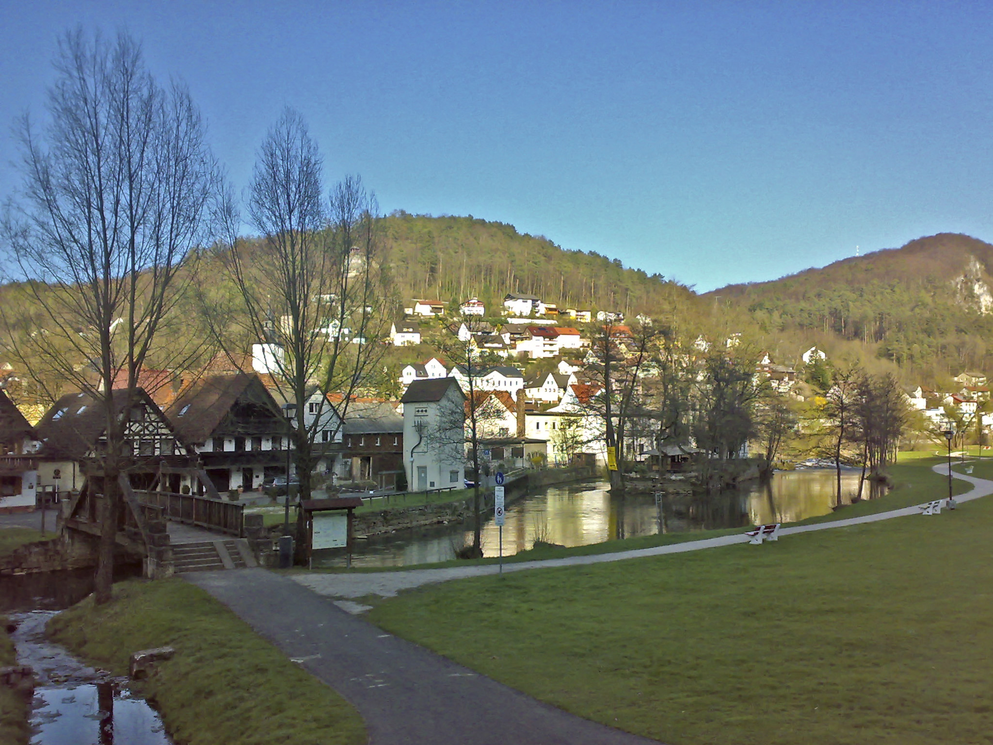 Village and the hill across the river Wiesent